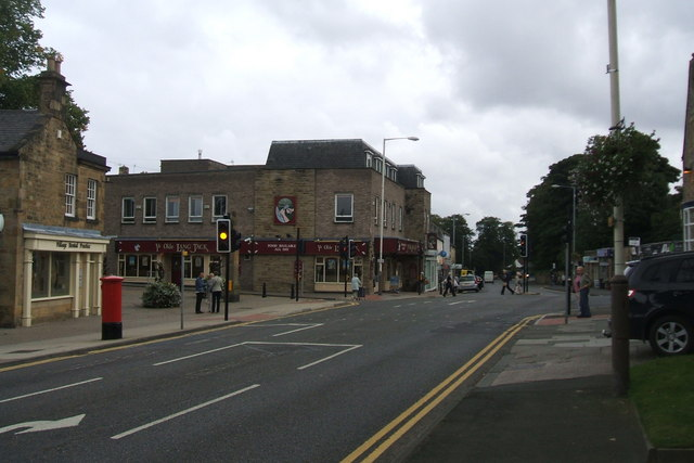 Ye Olde Lang Jack Public House, Whickham